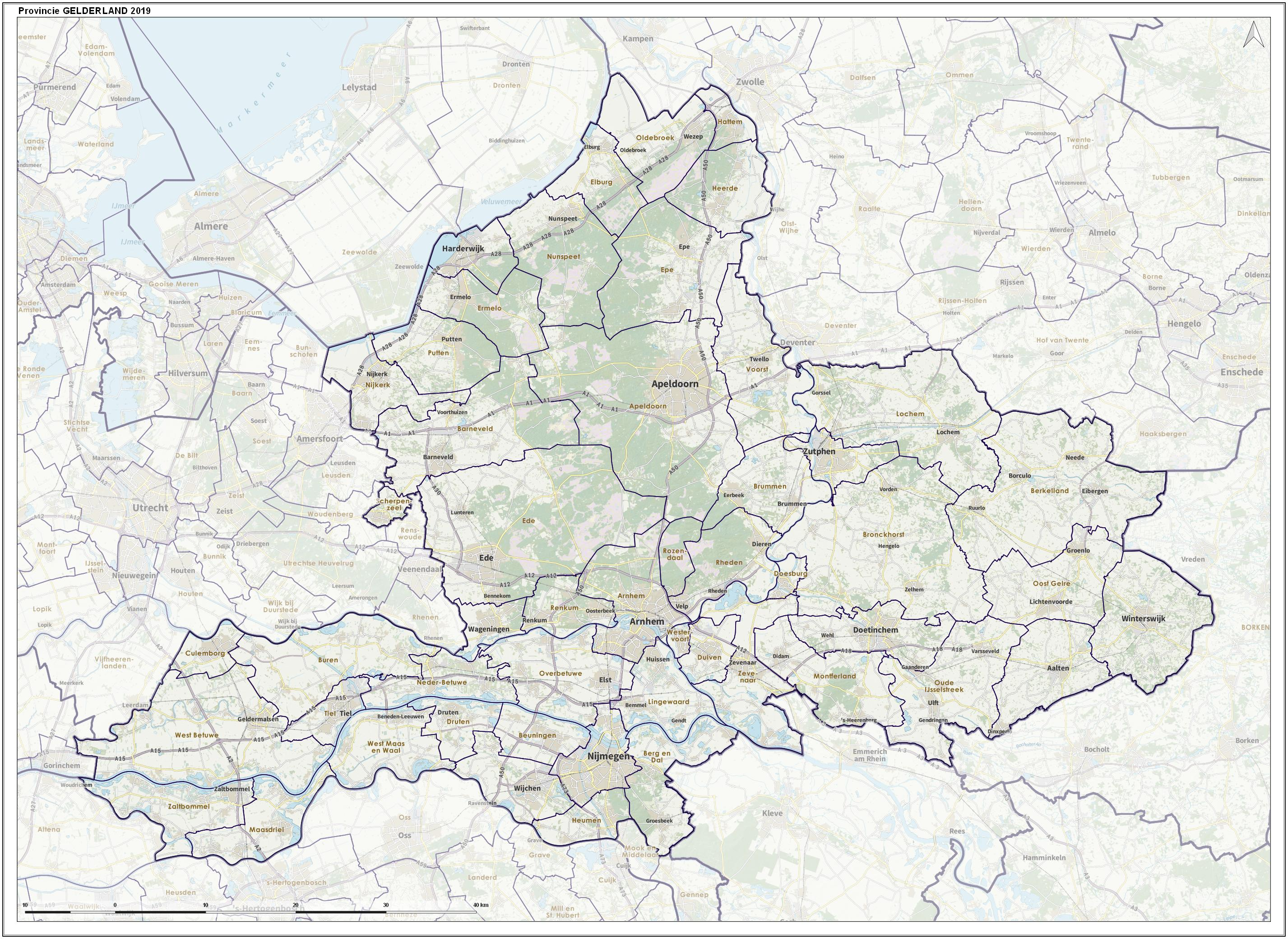 Overview map of the province, including municipal borders, largest places and major infrastructure.